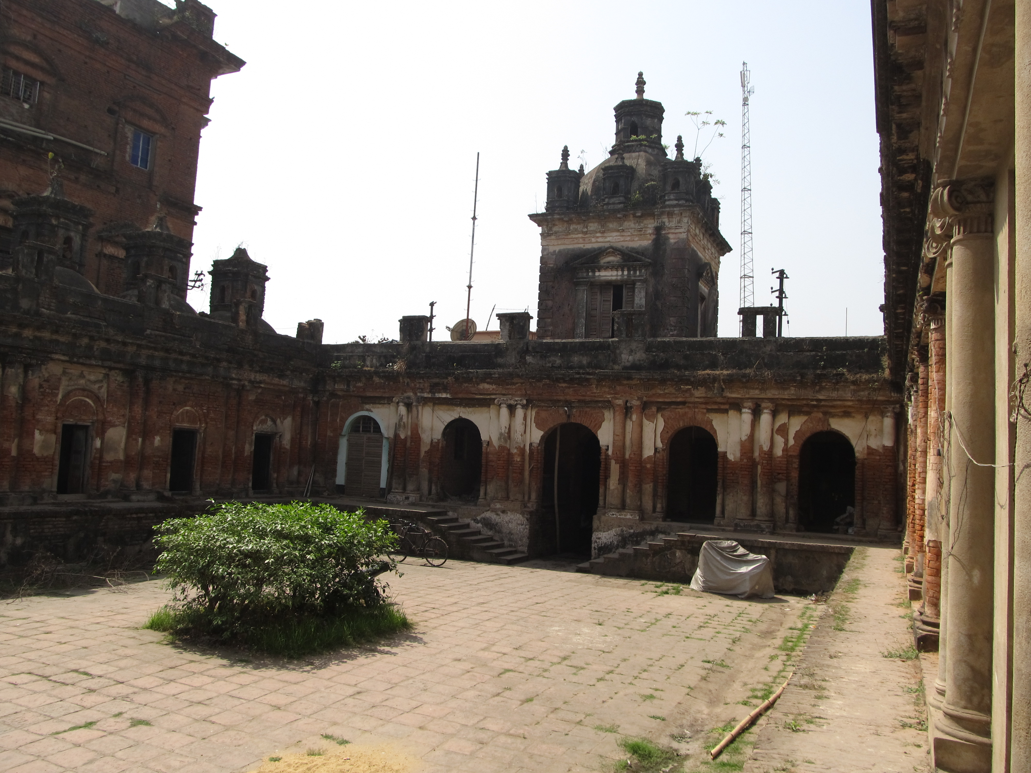 Annapurna and Shiva Mandir of Andul Raj Bati, Howrah.